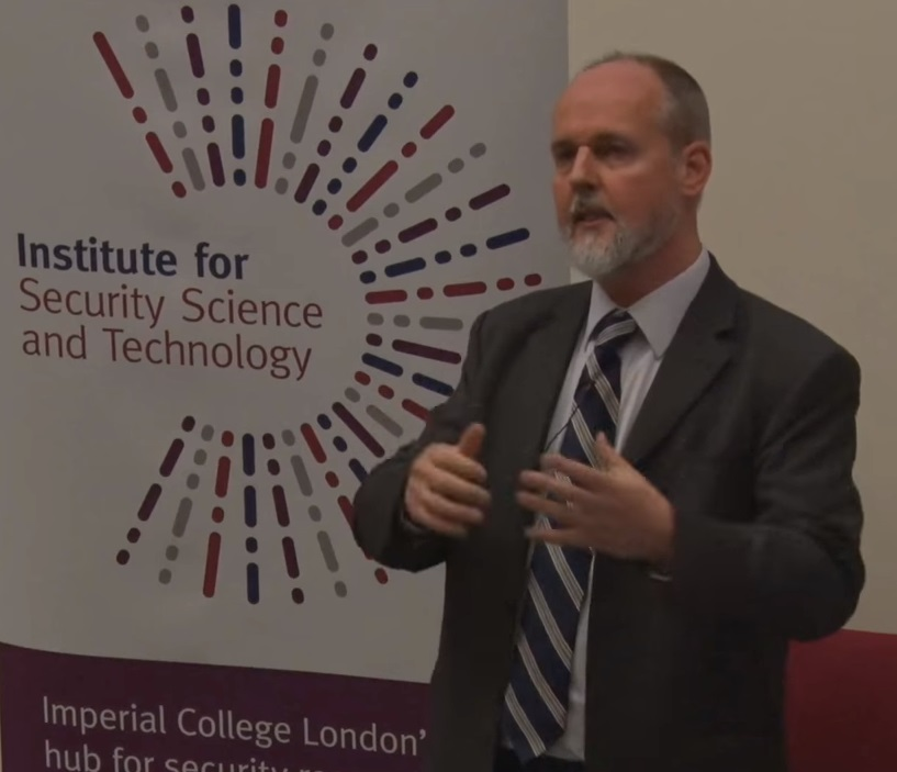 Professor Bill Durodié giving the Vincent Briscoe Annual Security Lecture at Imperial College London in November 2017.